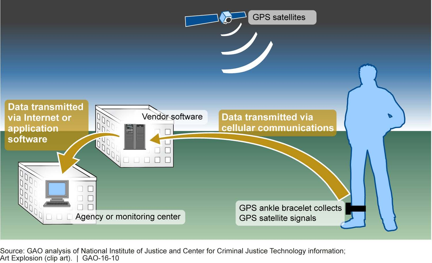 This image is excerpted from a U.S. GAO report: ELECTRONIC MONITORING: Draft National Standard for Offender Tracking Systems Addresses Common Stakeholder Needs